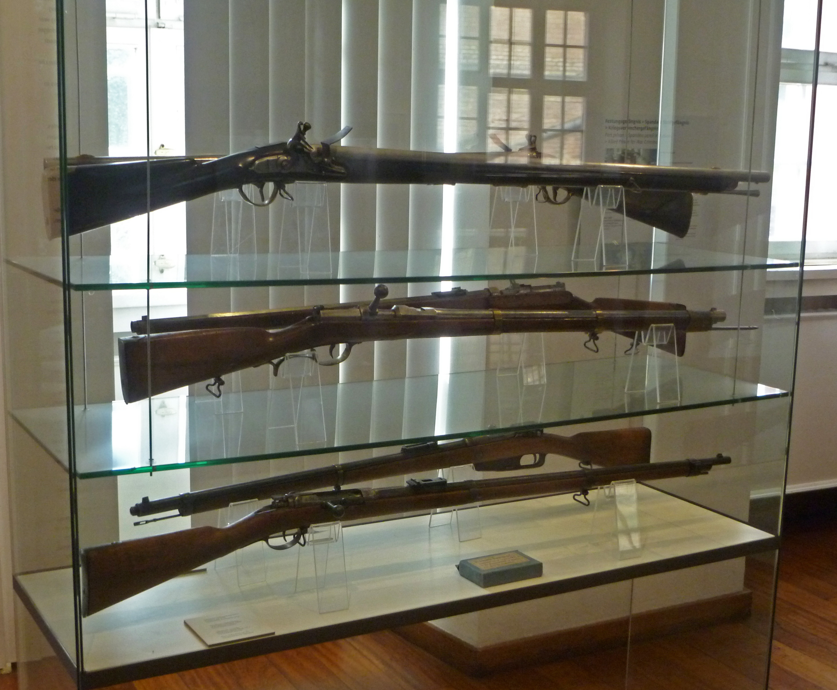 1) infantery flintlock rifle Prussia (1770) 2) German Dreyse needle gun (1854) 3) German infantery rifle (1871); on exhibition in the Spandau Citadel, Spandau, Germany